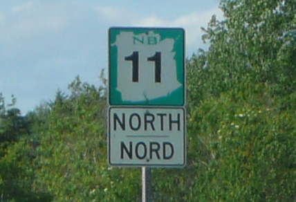 Reassurance marker for New Brunswick Route 11.